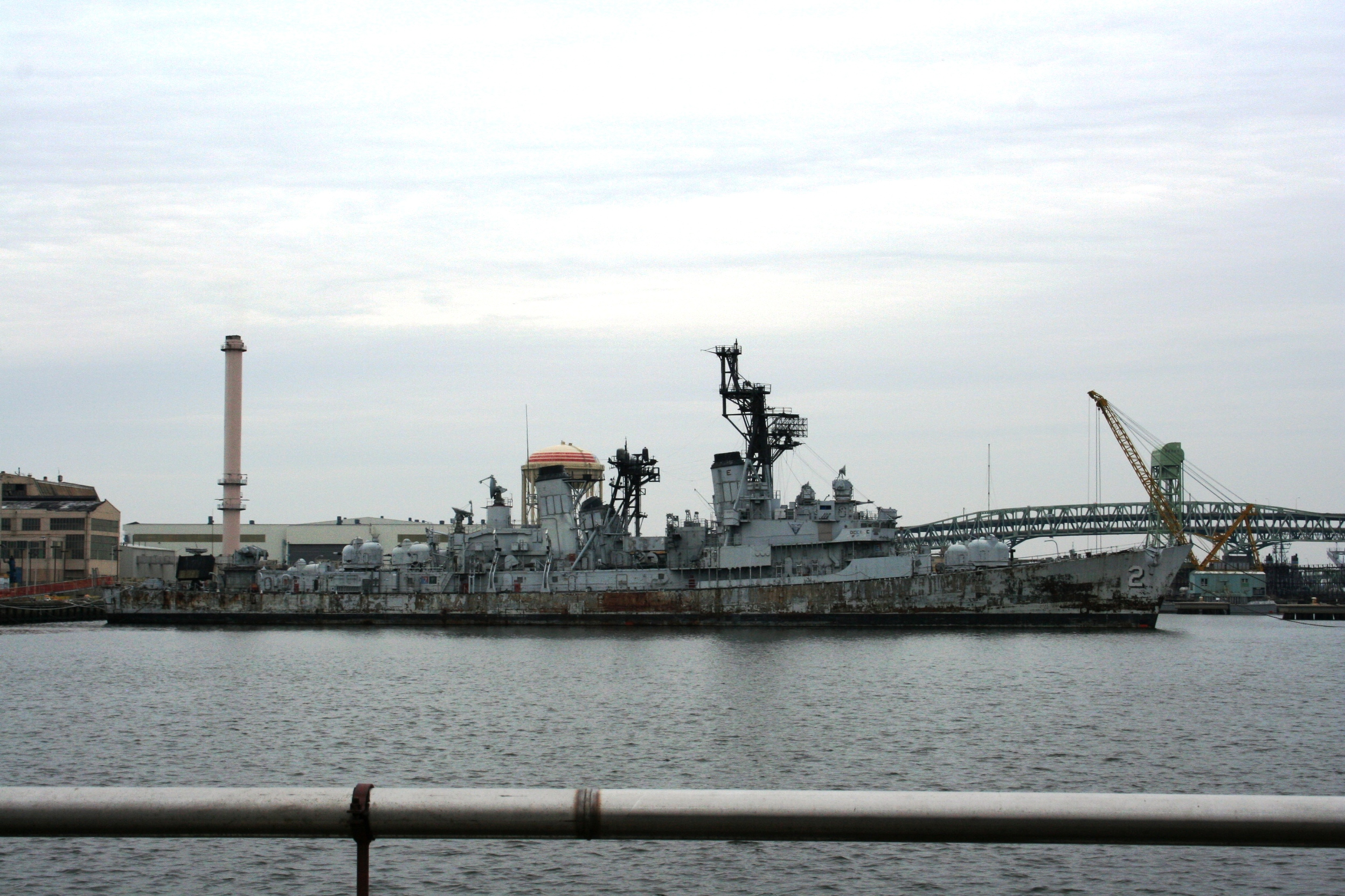 The decommissioned U.S. Navy guided missile destroyer USS Charles F. Adams (DDG-2) laid up at the Philadelphia Naval Inactive Ship Maintenance Facility, Pennsylvania (USA), on 19 January 2008. Barely visible behind Charles F. Adams are the decommissioned destroyers USS Forrest Sherman (DD-931) and USS Edson (DD-946).